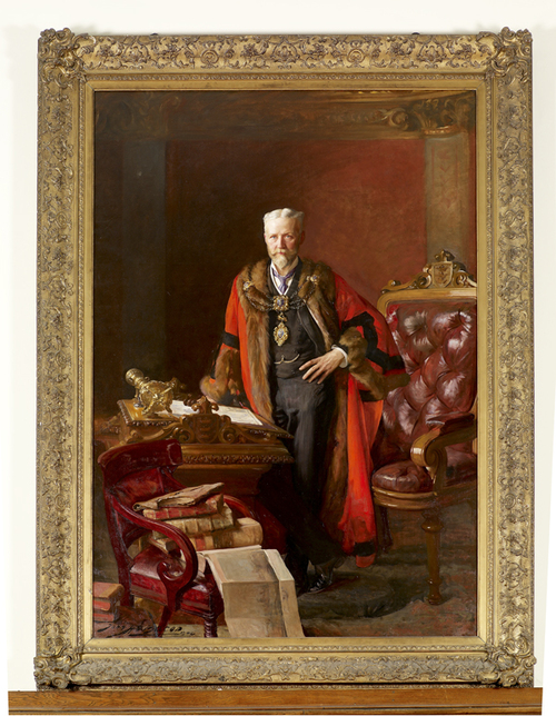 Sir William Alfred Gelder (1855-1941), JP; Painting (1904) at Hull Guildhall by John Henry Frederick Bacon (1868–1914) A full length standing portrait of Sir Alfred Gelder, wearing mayoral ceremonial attire. He is standing at a desk/lectern with a large armchair behind him and with a smaller scroll-armed armchair in front of the desk. Within a gilded wooden frame.